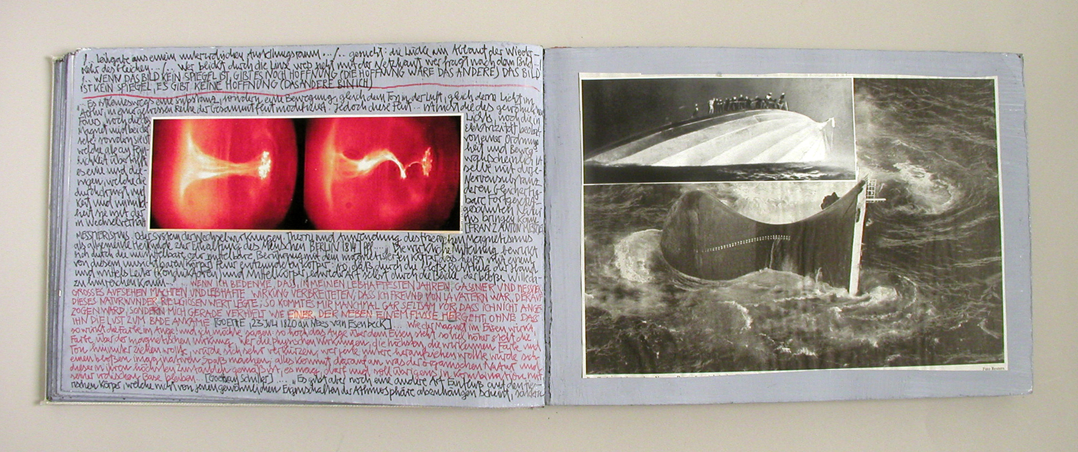 With permission by Mark Lammert.